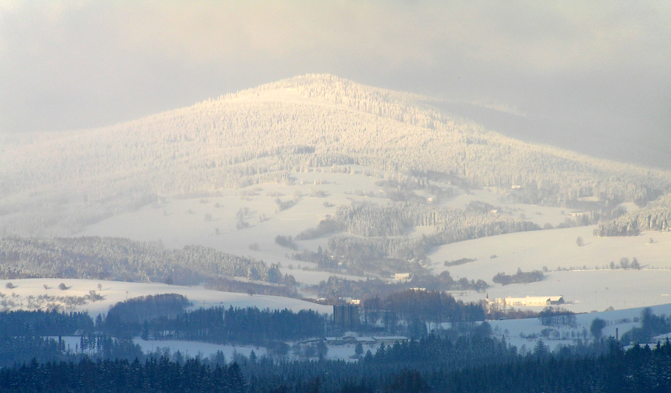 The hill Klepý (1143 m), Králický Sněžník Mountains, Czech republic, foto from the south, near the town Králíky